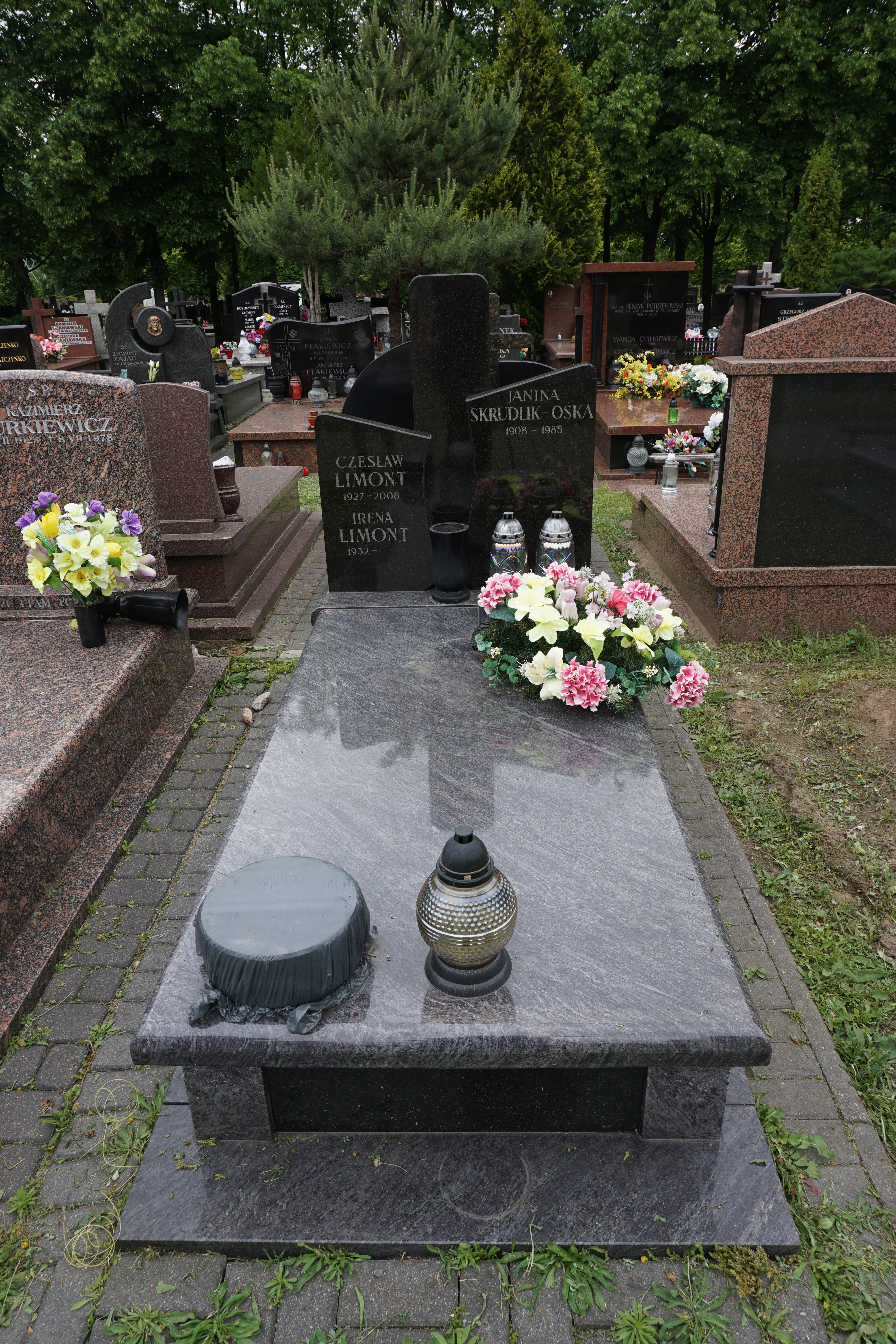 The grave of Czesław Limont at the North Municipal Cemetery in Warsaw (section E-IX-2, row 6, grave 14)